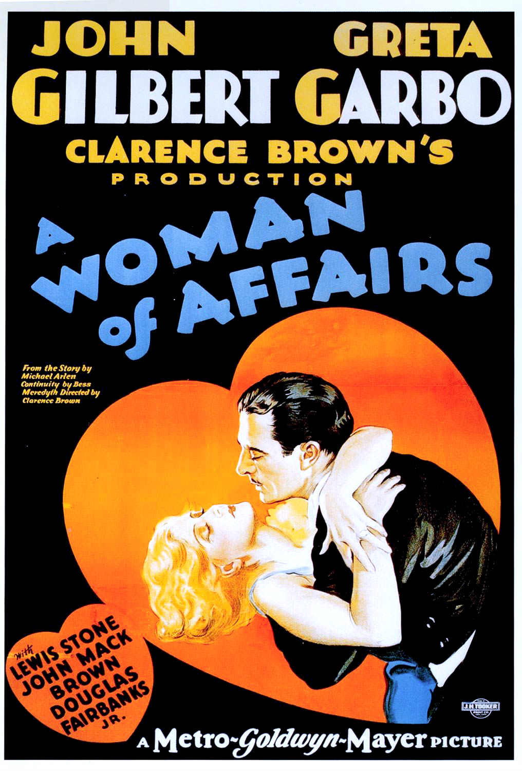 Poster for the American film A Woman of Affairs (1928).